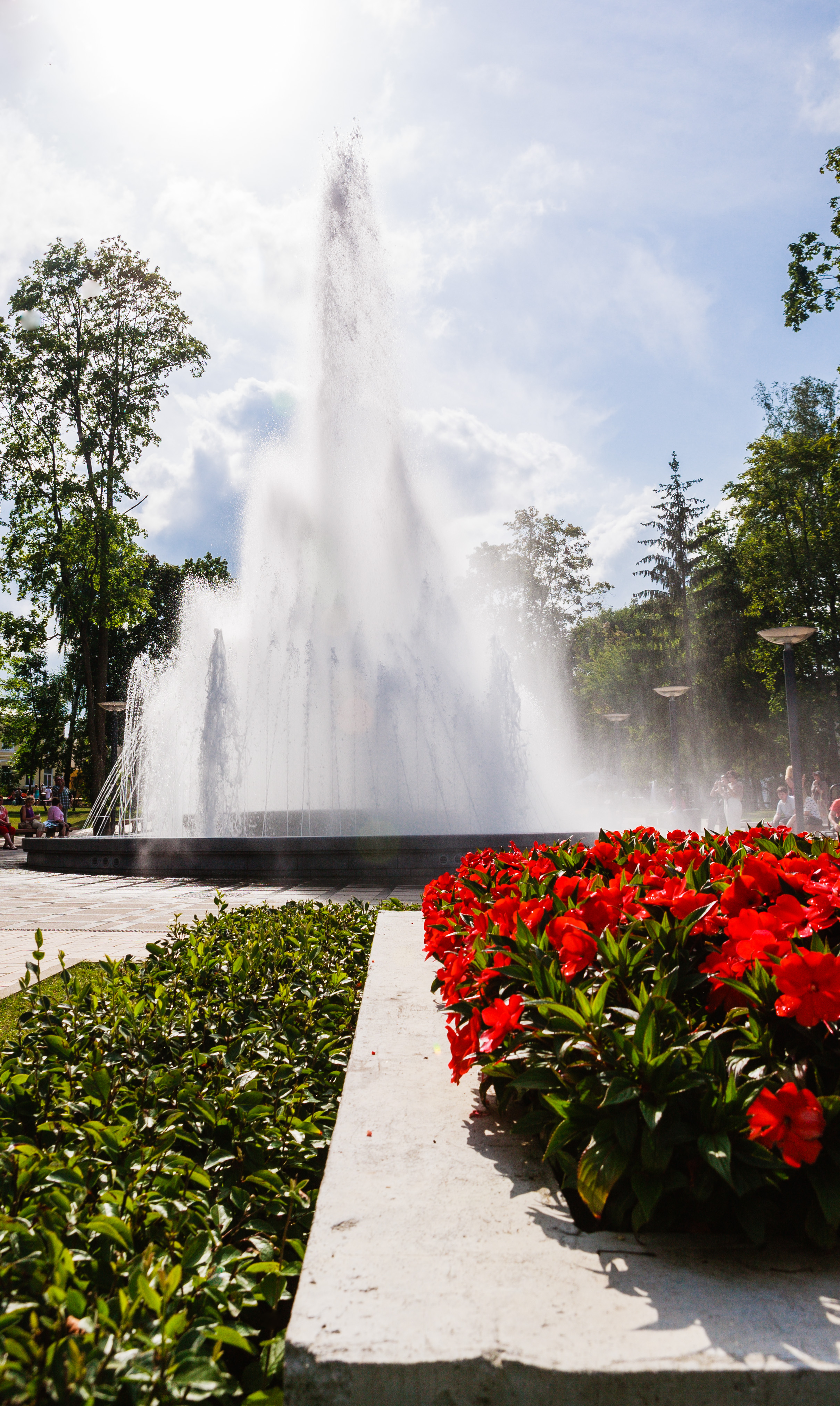 A great fountain in central Druskininkai